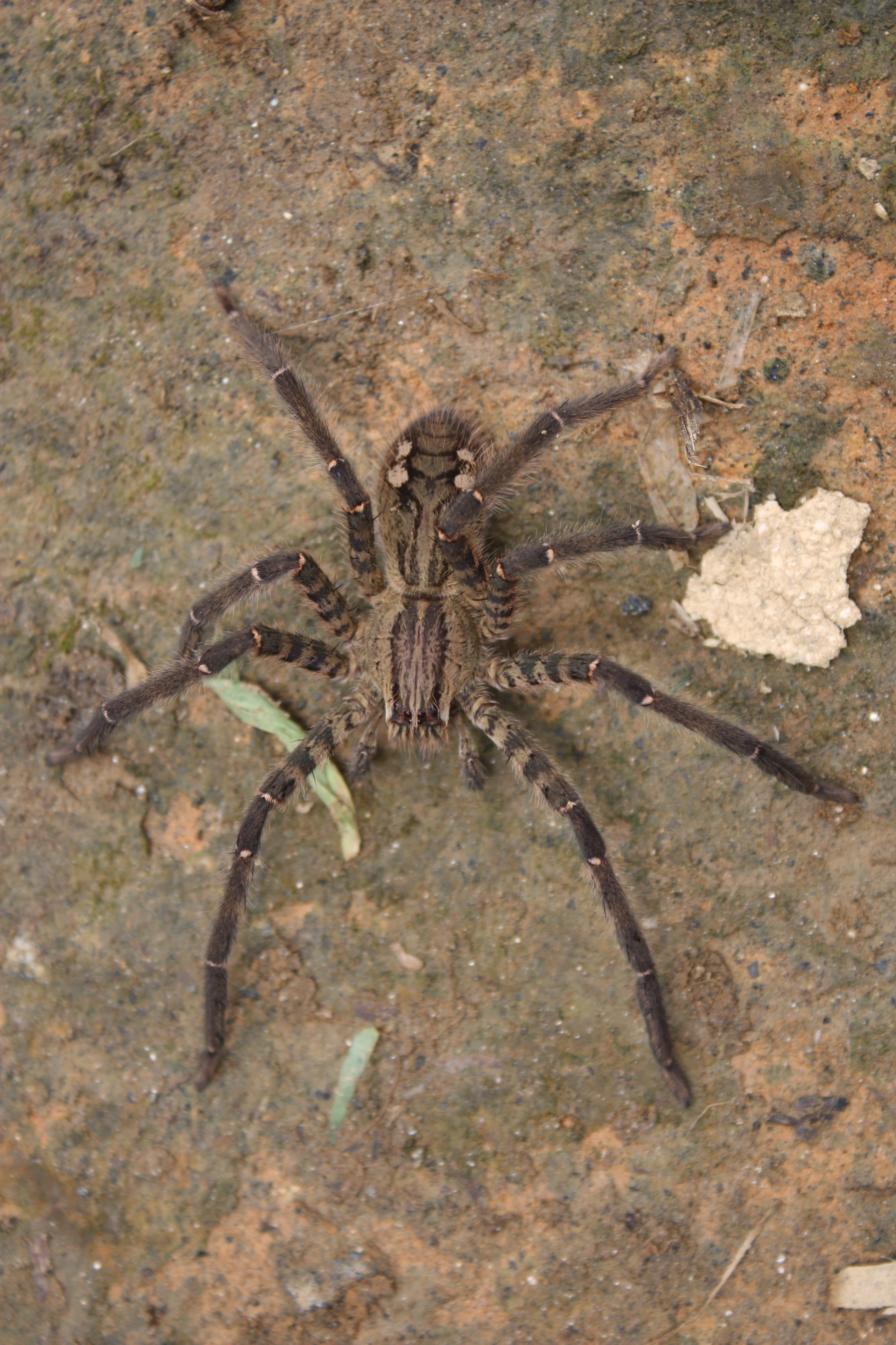 Cupiennius salei, Adult Female. In lower elevation of Parque Nacional Cusuco, Dept. Cortés, Honduras